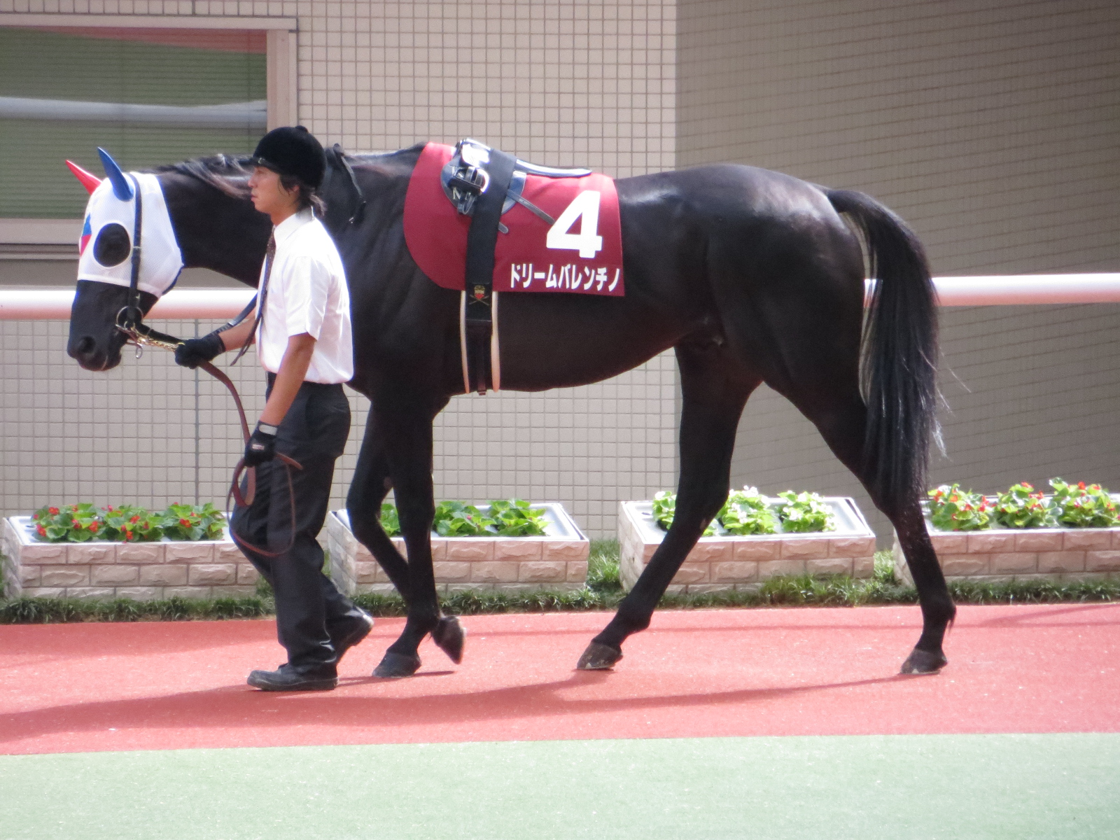 Dream Valentino (Racehorse of Japan).